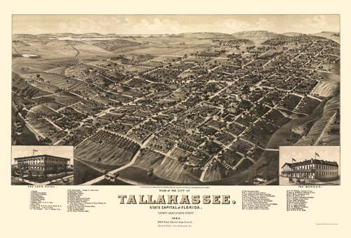 1885 "birds eye" view map of Tallahassee, Florida